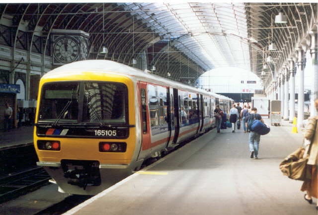 Paddington Station. Oxford train due to depart.